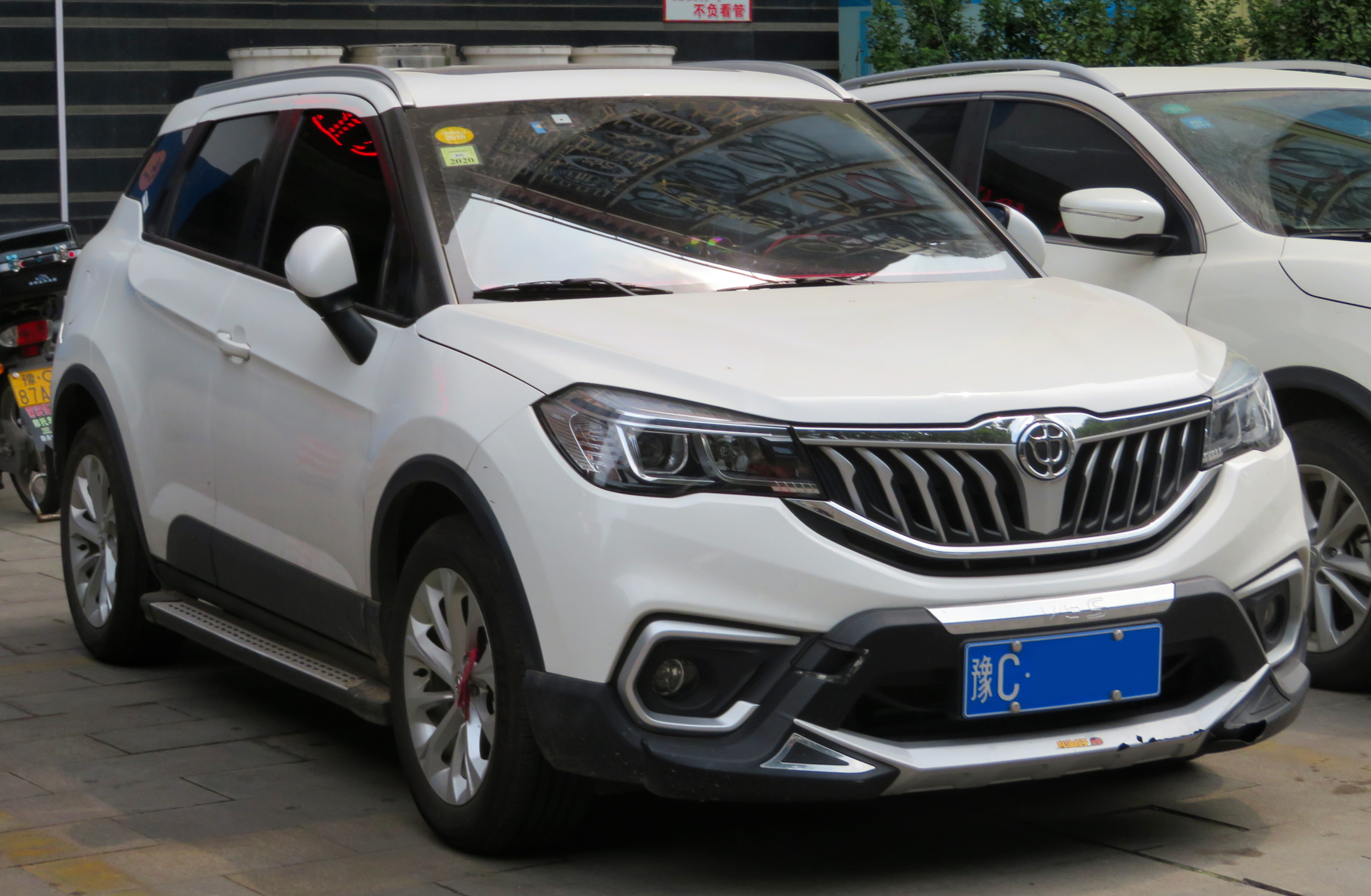 A 2019 Brilliance V3 facelift photographed in Luoyang, Henan province, China